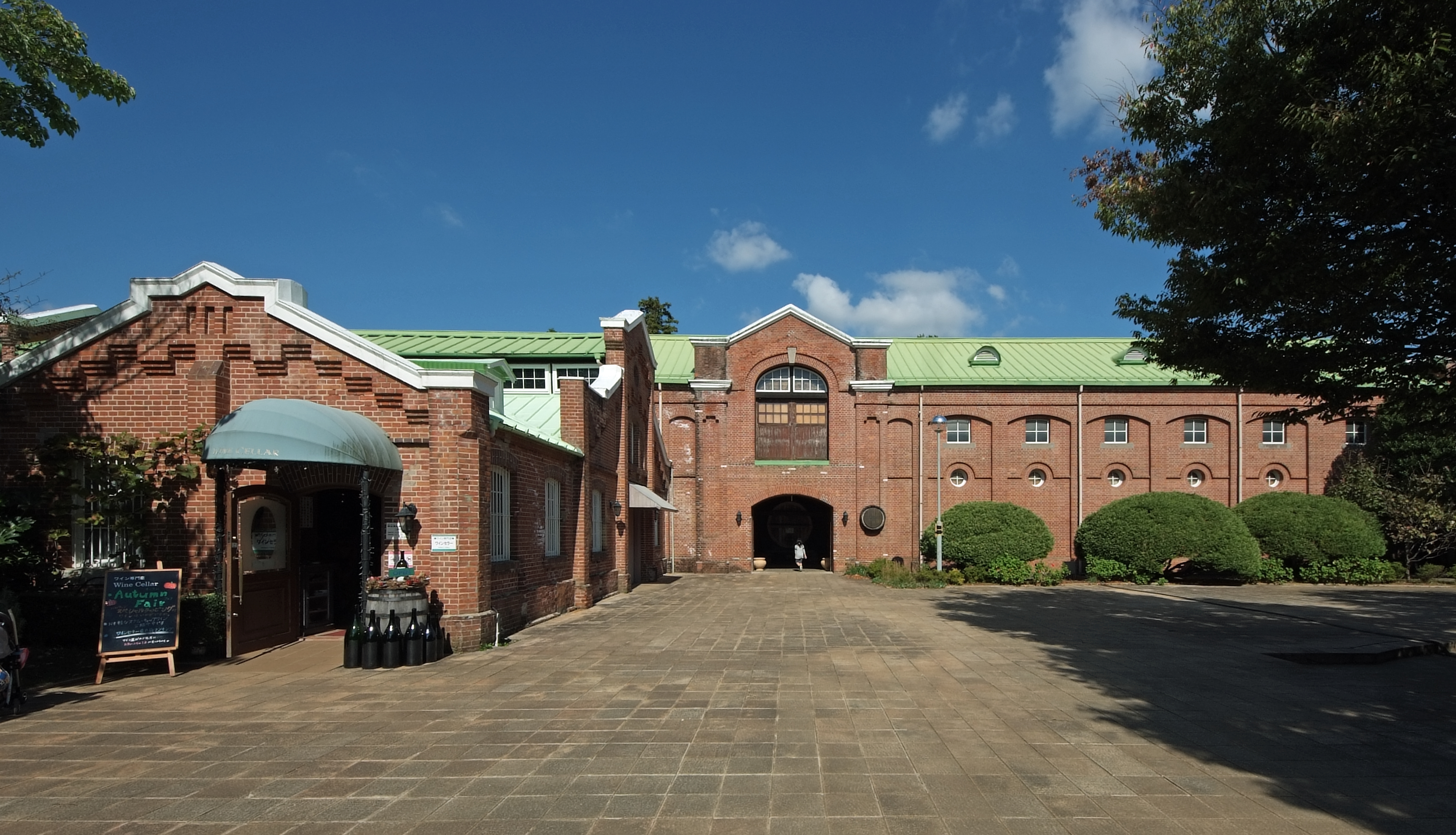 Château Kamiya (Ushiku Chateau) in Ushiku, Ibaraki, Japan.